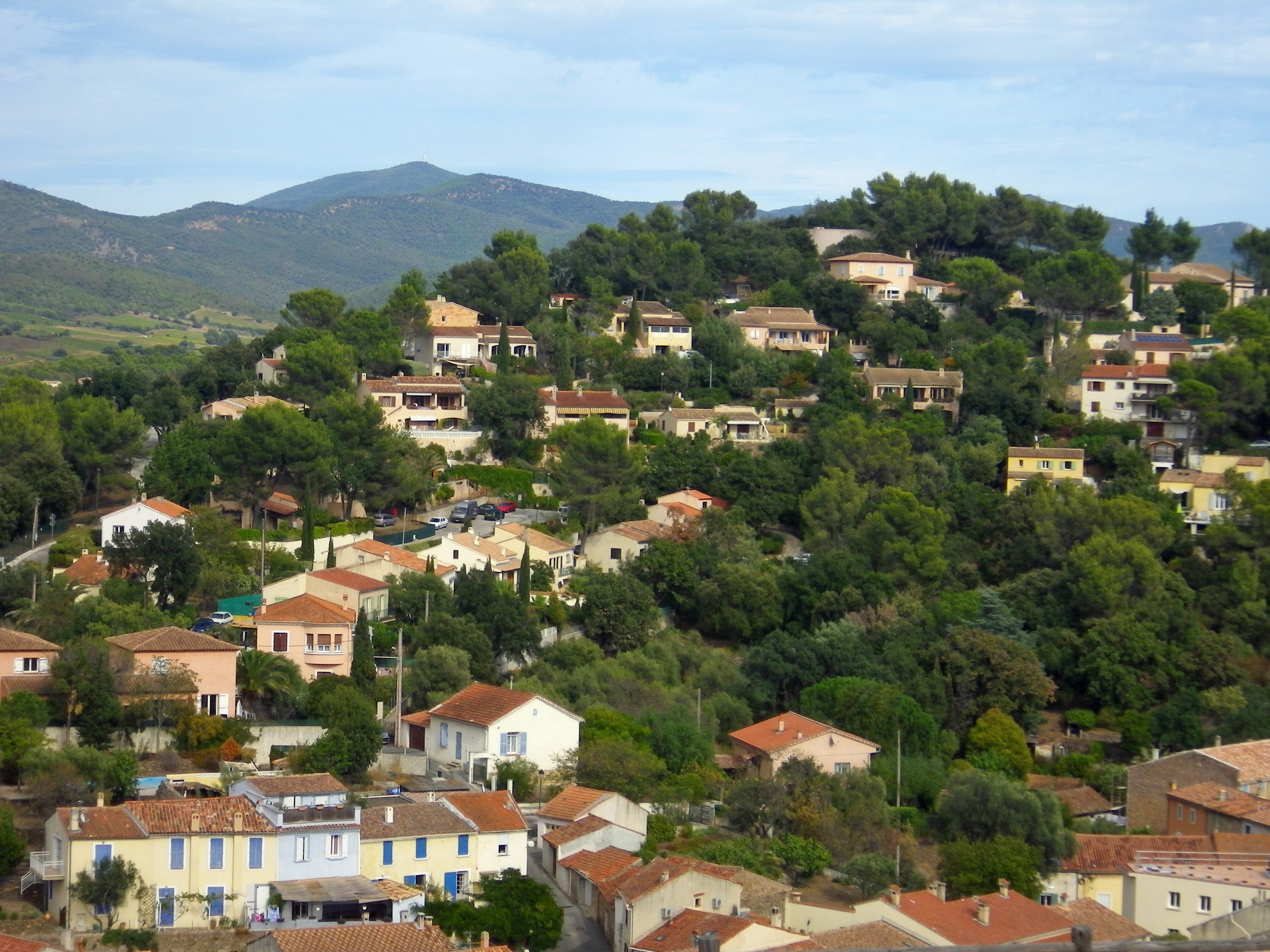 Pierrefeu-du-Var (France), view from chapel's hill towards hill part of the town